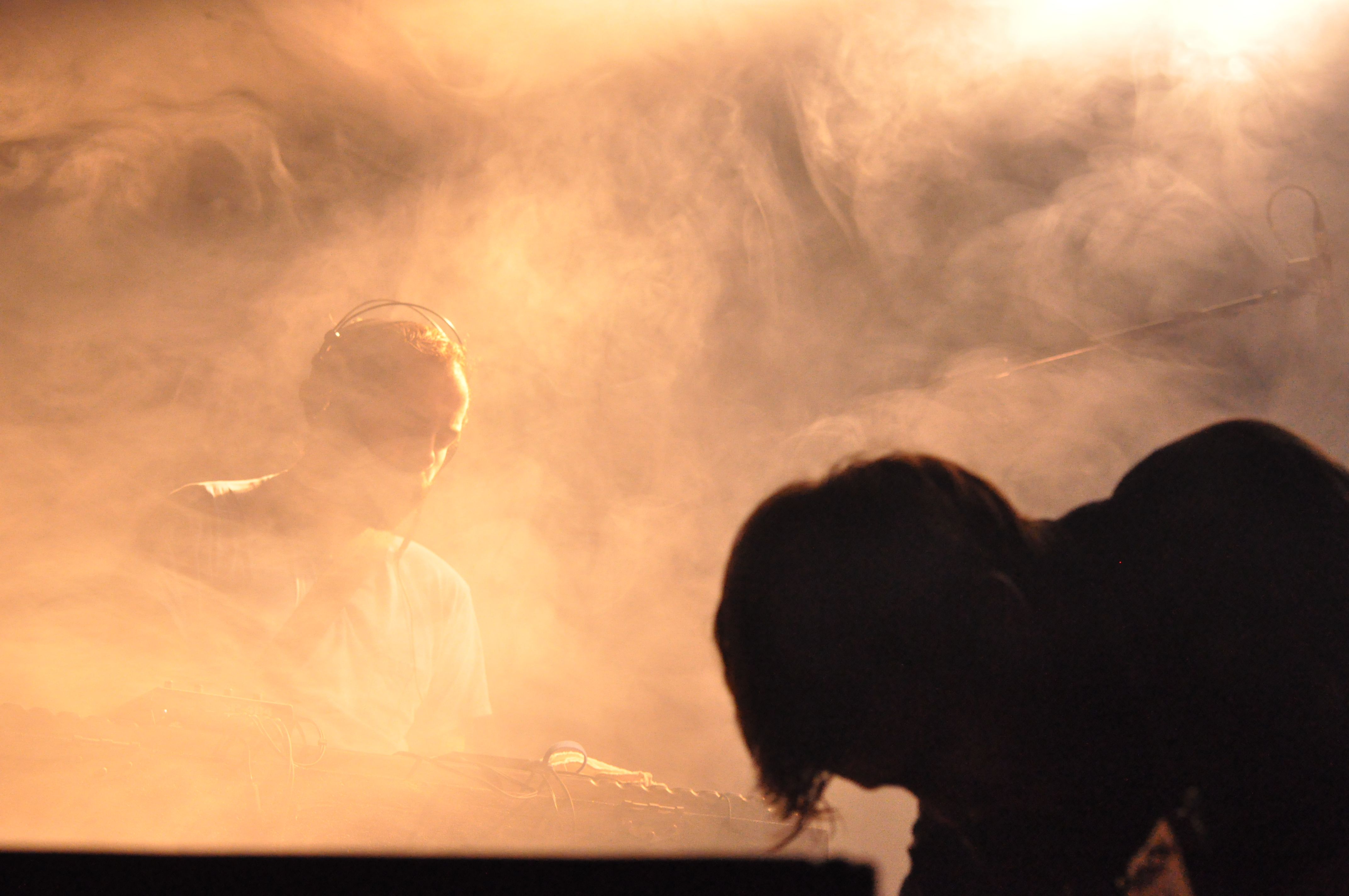 This Will Destroy You performing in St. Gallen, Switzerland in October 2010. From left to right: Donovan Jones and Chris King.